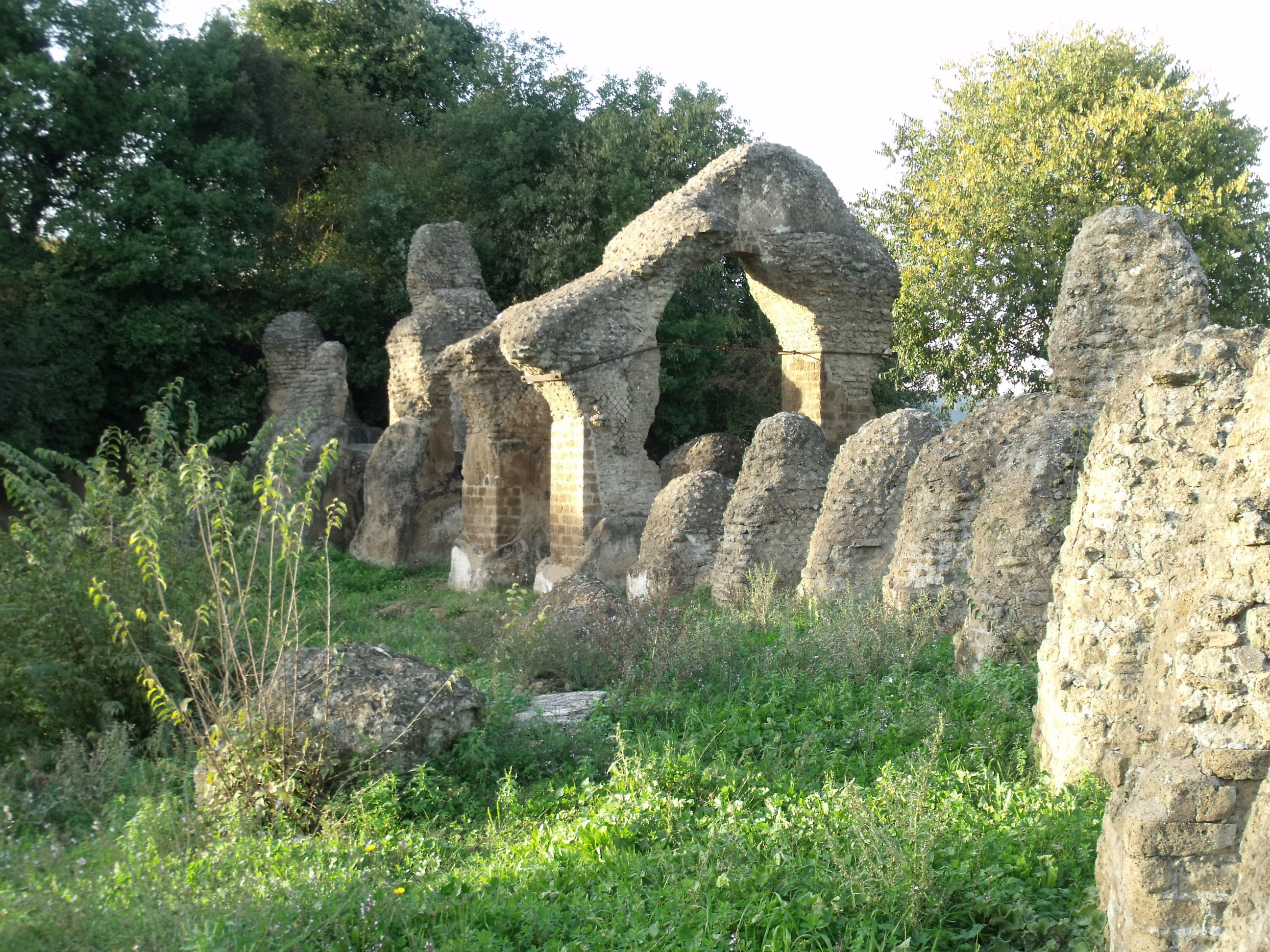 Anfiteatro in Ocriculum (Otricoli), Province of Terni, Umbria, Italy